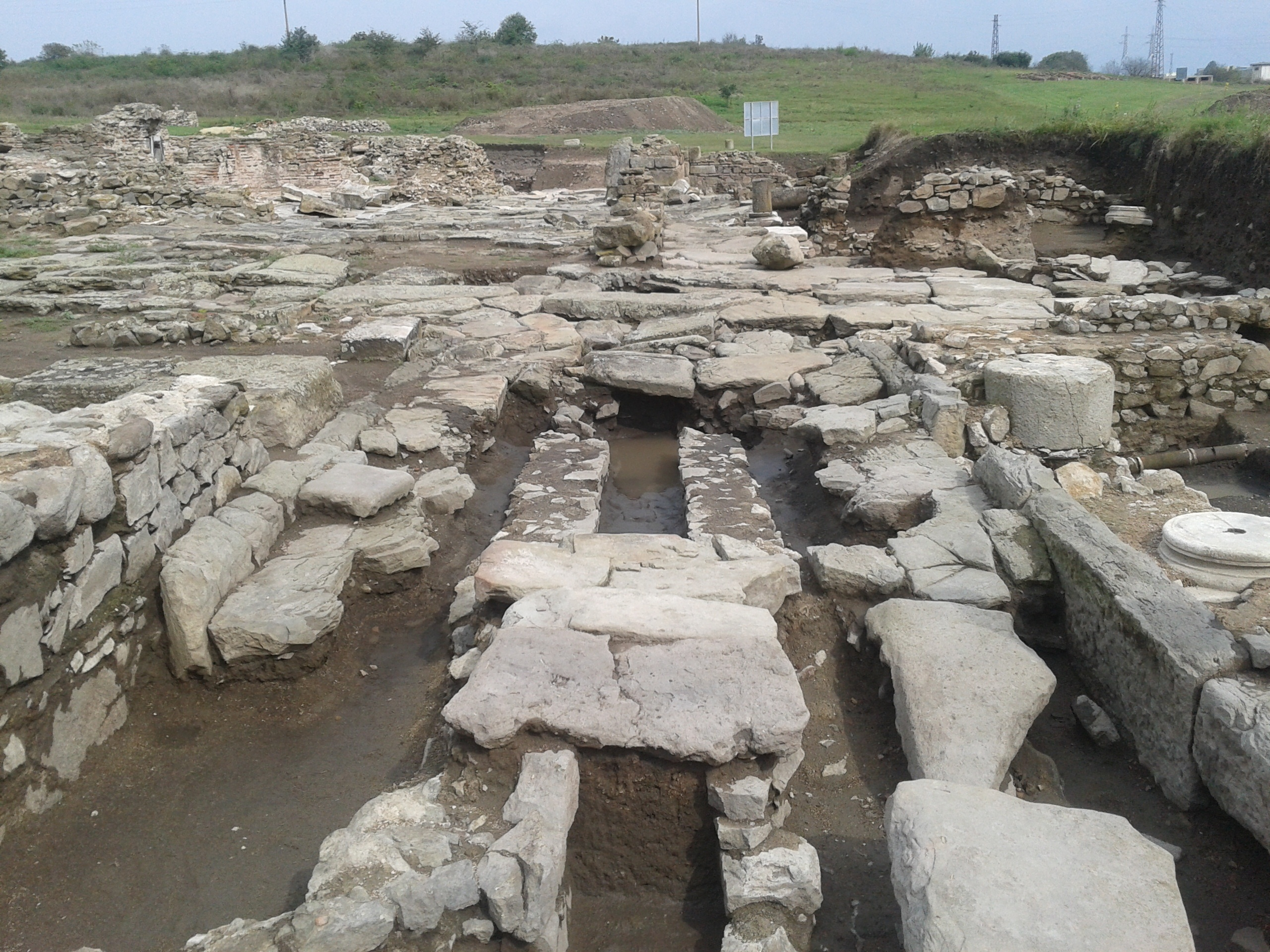 Roman town of Deultum, village of Debelt, Sredets Municipality, Burgas Province, Bulgaria